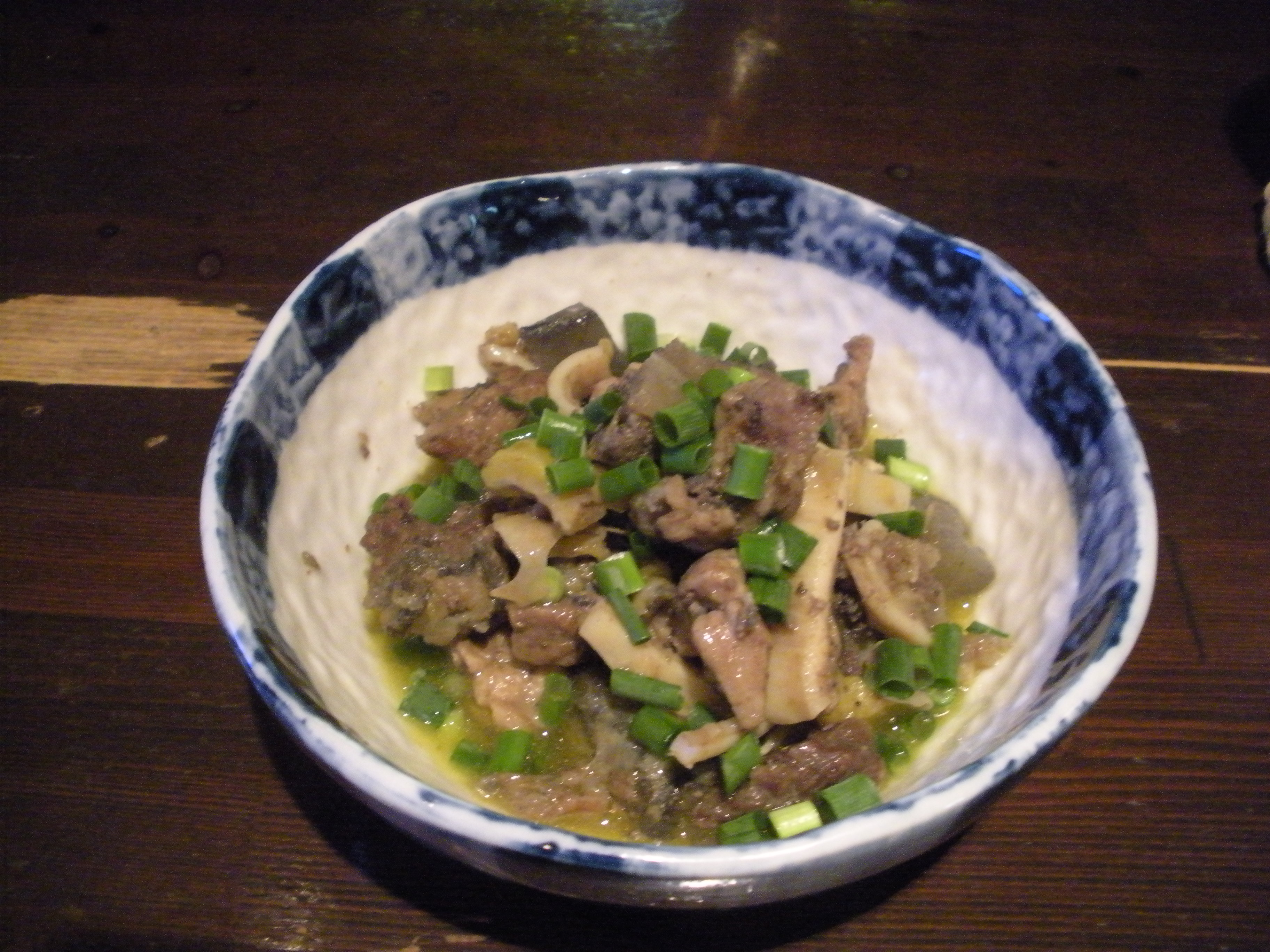 japan Bonin Islands Turtle stew